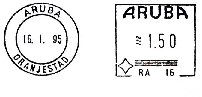 Meter stamp catalog image, Aruba type A5